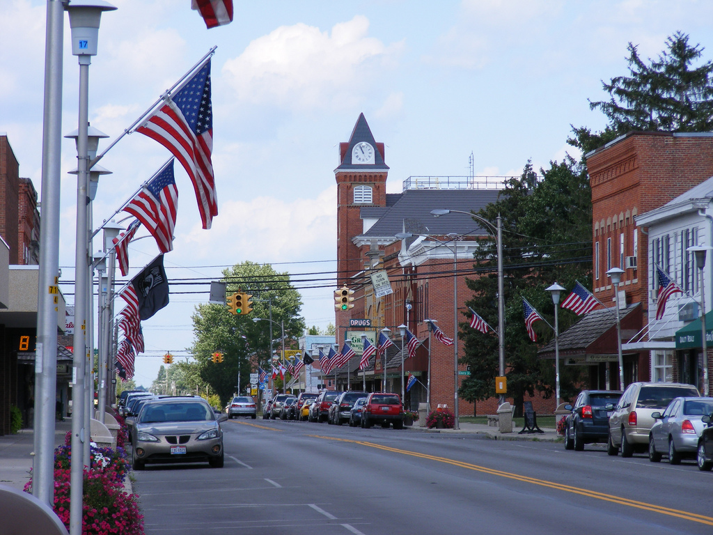 A look down Main Street in Bluffton, Ohio, including town hall and the American flags.